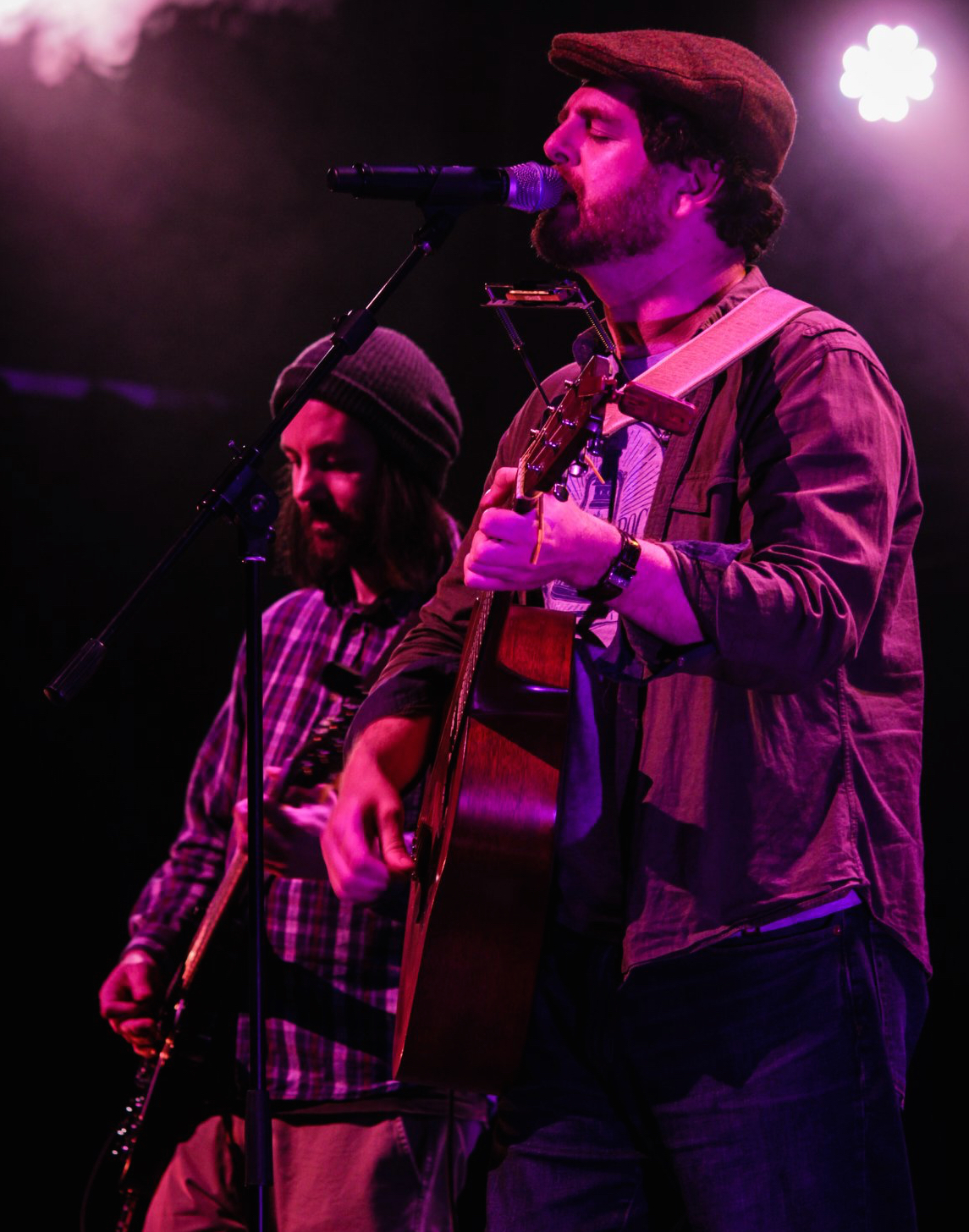 PD-self